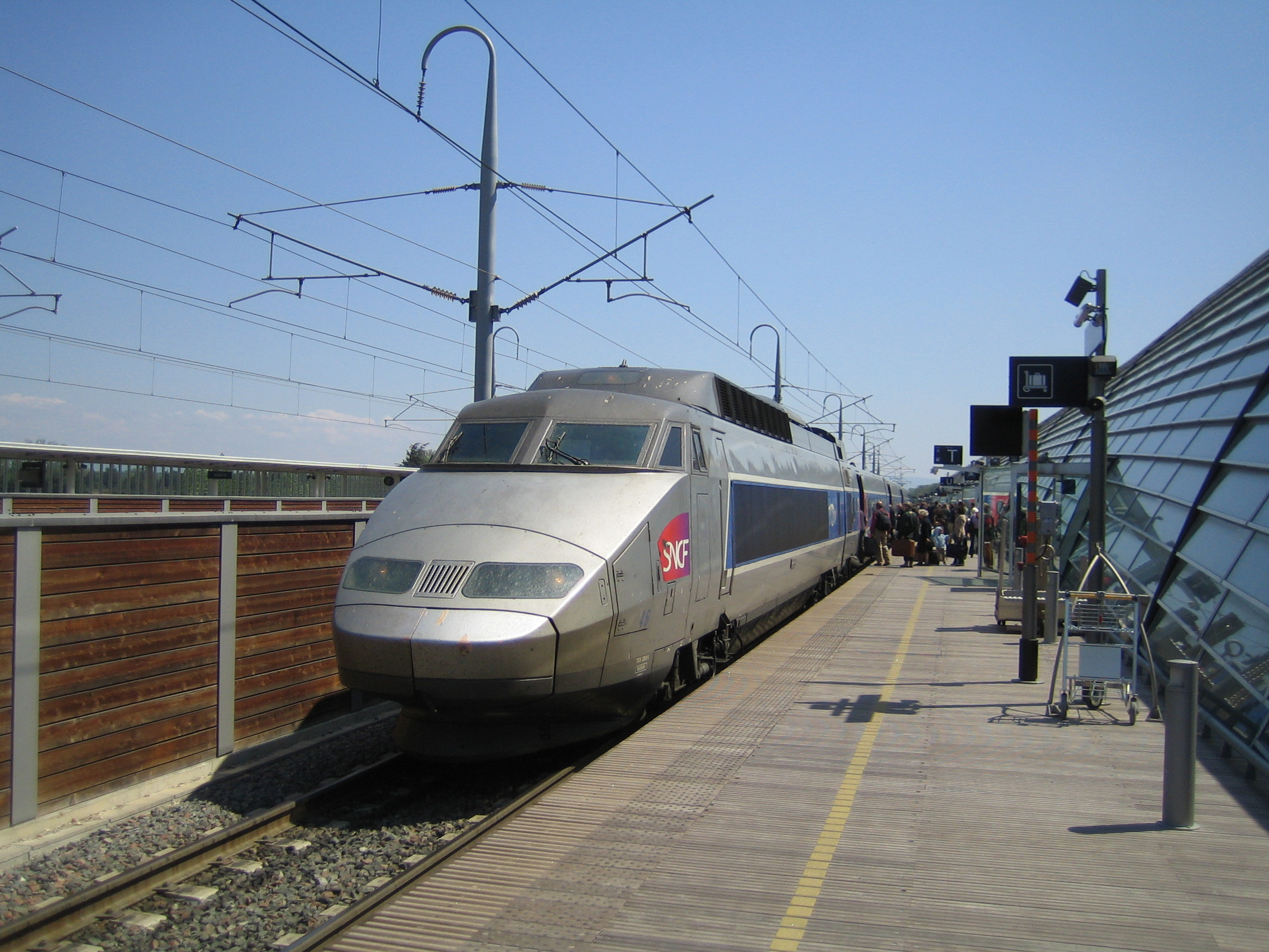 TGV at Avignon, France